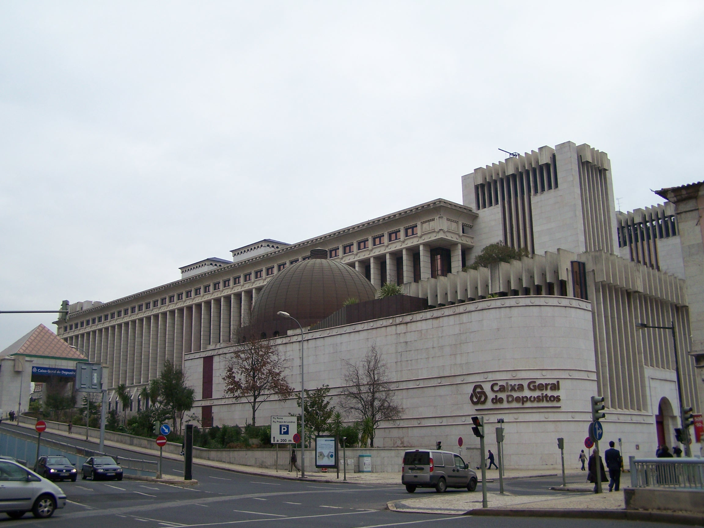 The headquarter of the portuguese bank Caixa Geral de Depósitos in Lisbon, Portugal